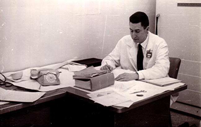 American health physicist, writer and founding member of the Health Physics Society